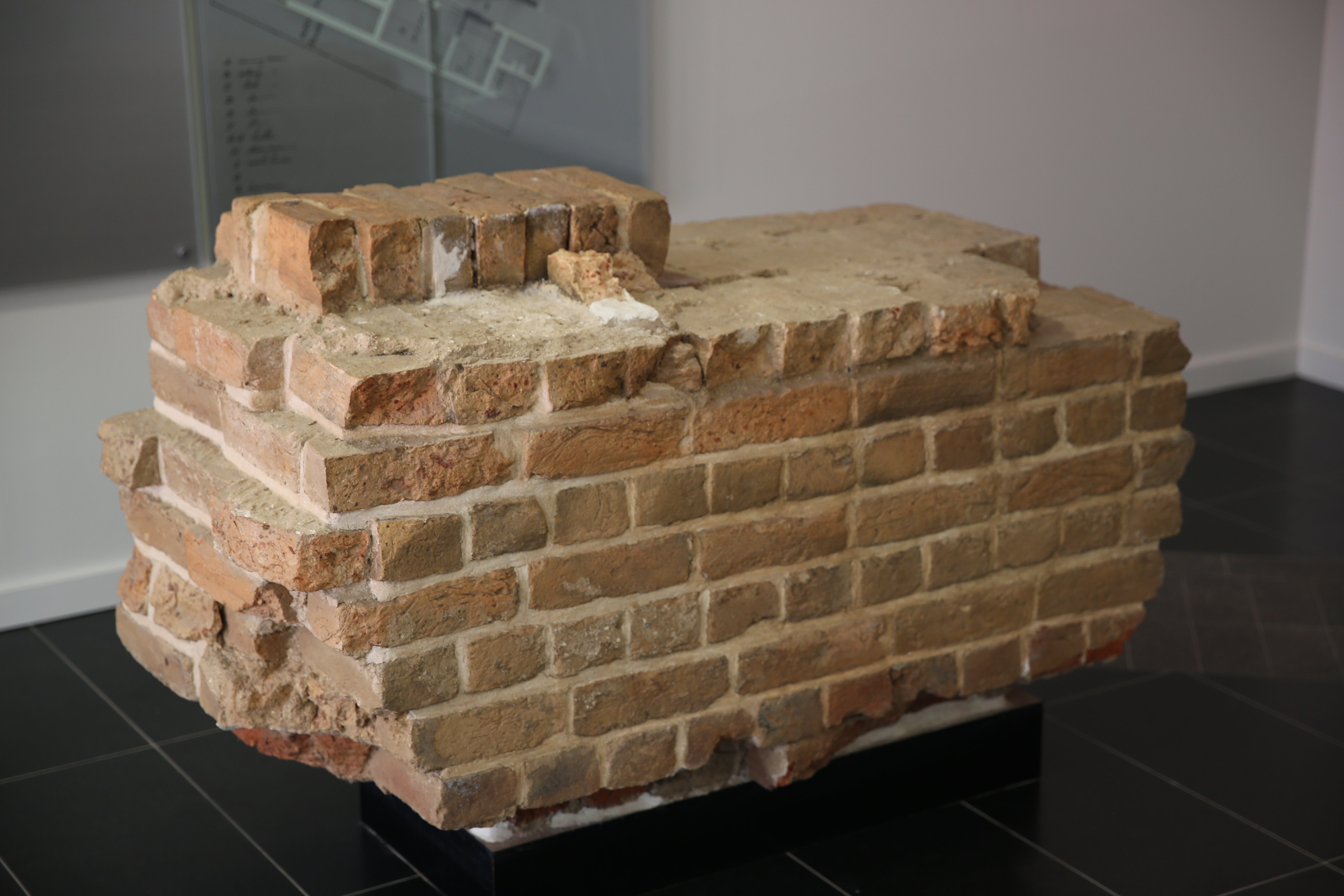 This appears to be all that remains of the original Port Macquarie Government House Site. Although it has been heritage listed, there is a modern apartment block built over it. It is unfortunate that it is not freely available for public viewing.